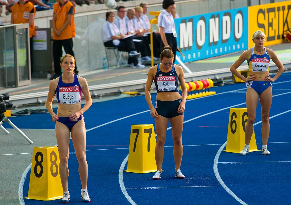 Start of the 800 metres Semifinal at the 2009 World Championships in Athletics (Elodie Guegan, Geena Gall, and Yuliya Krevsun shown).